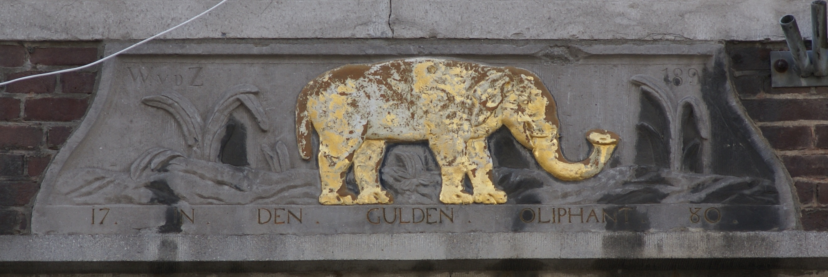 National monument no. 27915 - Wycker Brugstraat 61, Maastricht, The Netherlands. Gable stone dating from 1780. Originally from Wycker Brugstraat 46, which was demolished in 1883.